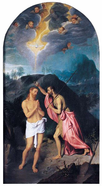 Giovan Battista Moroni (Albino, Bergamo 1523 ca. - 1579) "Baptism of Christ" - oil on canvas, 213 x 113 cm Museo Adriano Bernareggi - Bergamo (Italy)